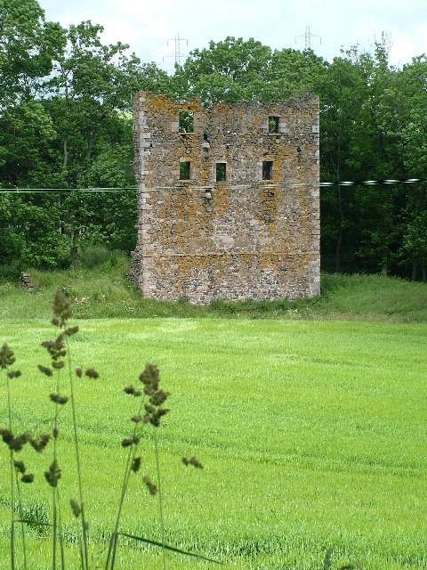 Balquhain Castle Wall.